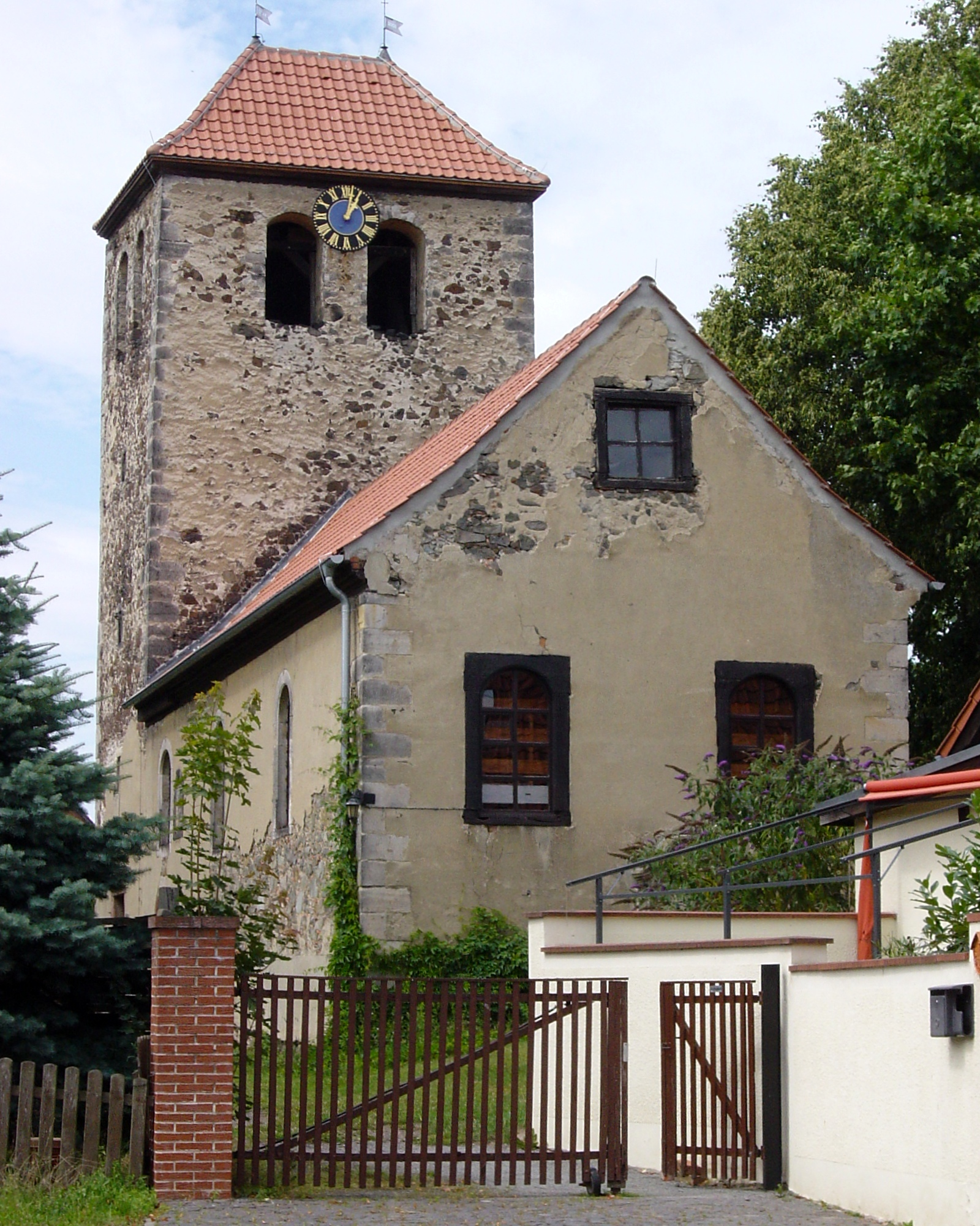 Protestant church St. Annen in Süplingen, Germany